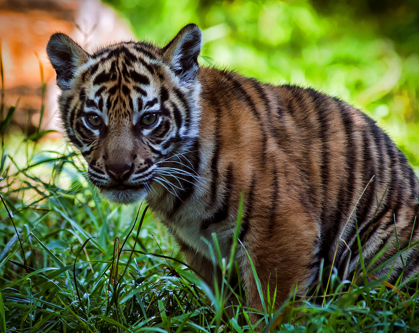 One of the baby Sumatran Tigers Cubs born at Chester Zoo